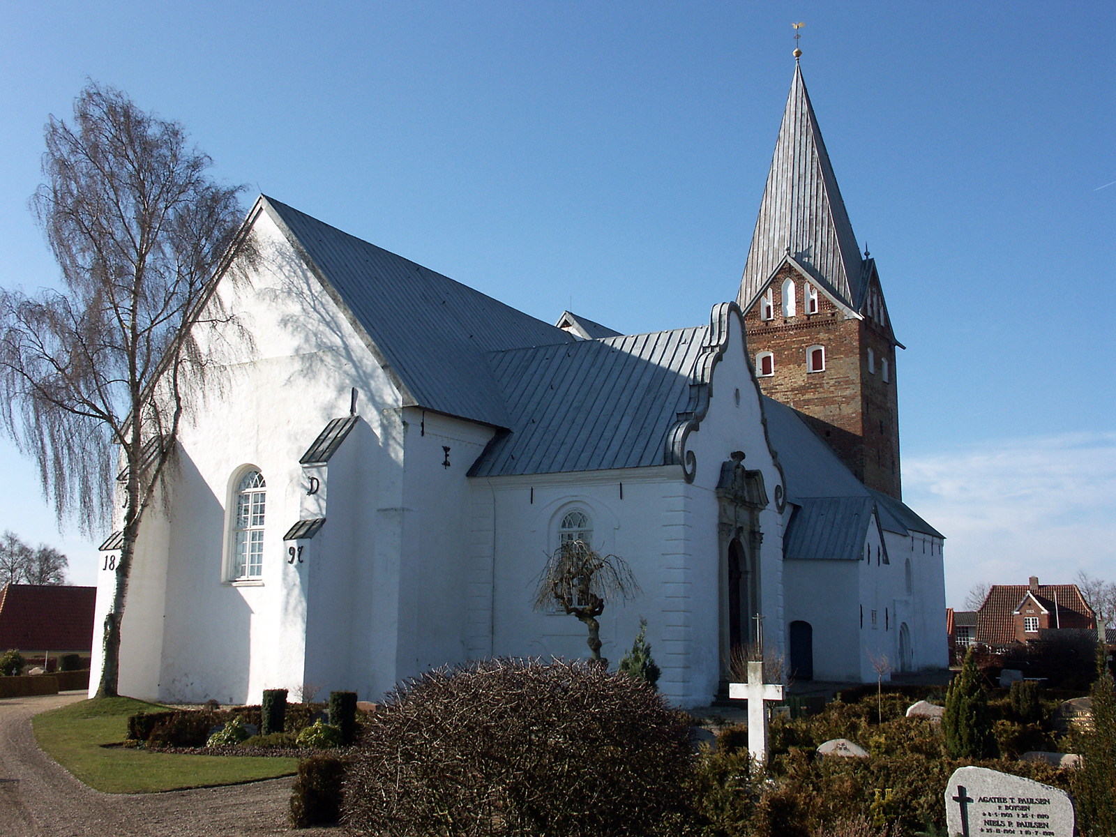 Church st. Nikolaus in Møgeltønder